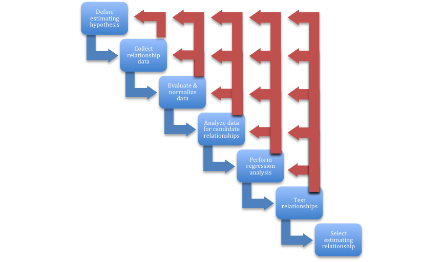 Visual representation of parametric estimating process. 2nd review. Image in modified form according to NASA (2015)